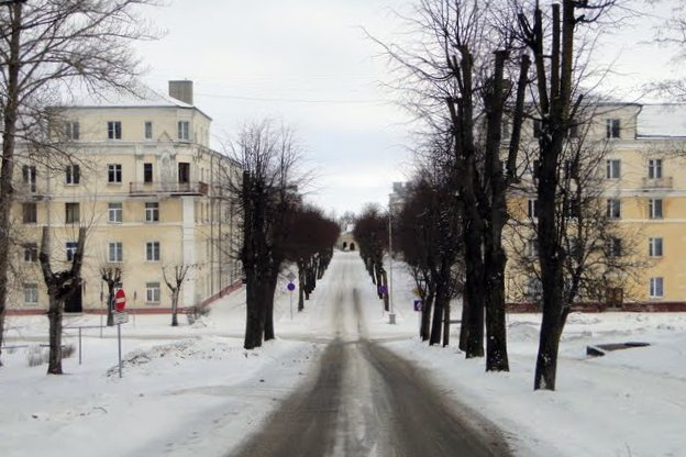 Sillamae in winter